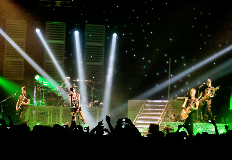 Superbus at Le Dôme (Marseille, 4.12.2009)